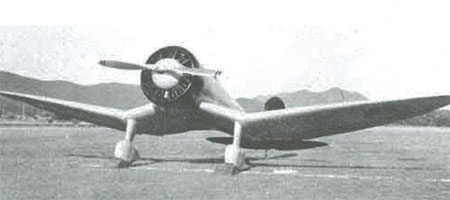 The Kyūshi Tanza Sentōki Shisaku Ichigōki was the experimental model of the Mitsubishi A5M.